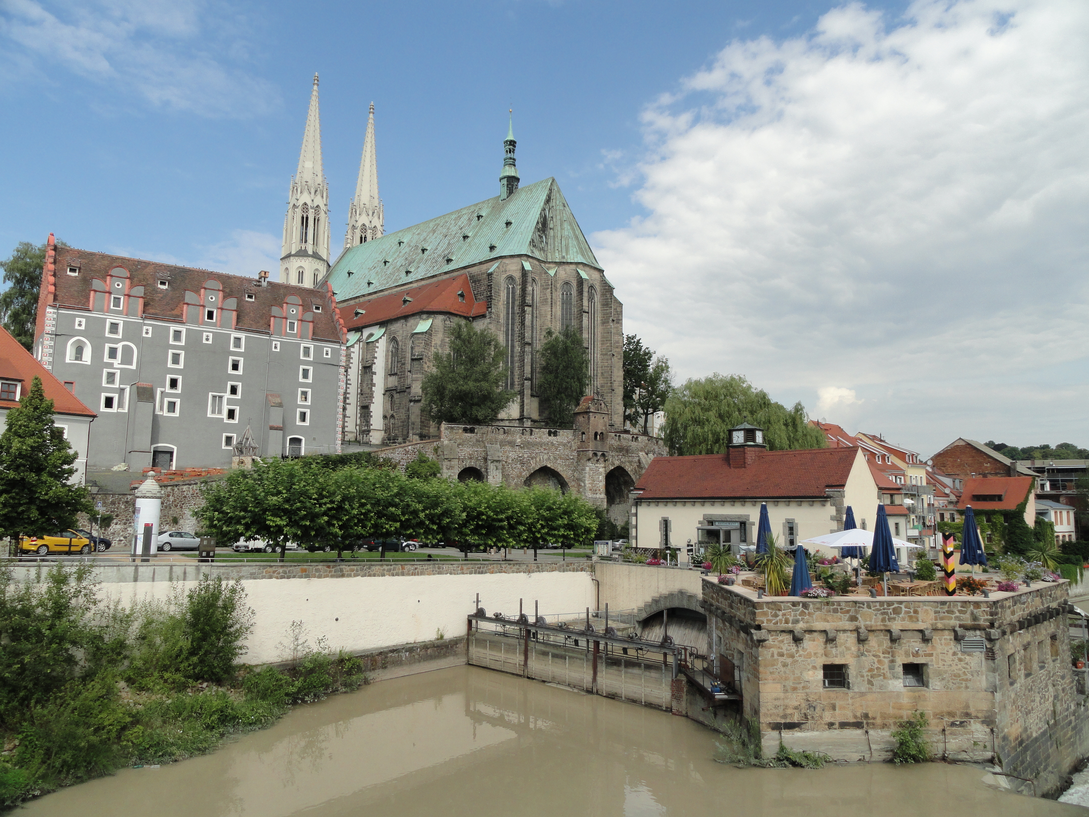 Church St. Peter and Paul and water mill Vierradenmühle